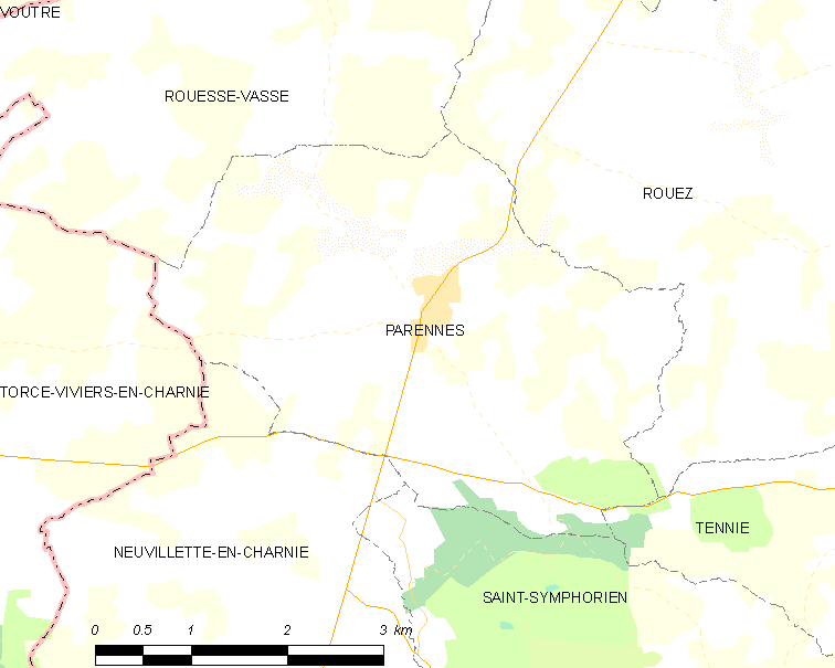 Map of French municipality